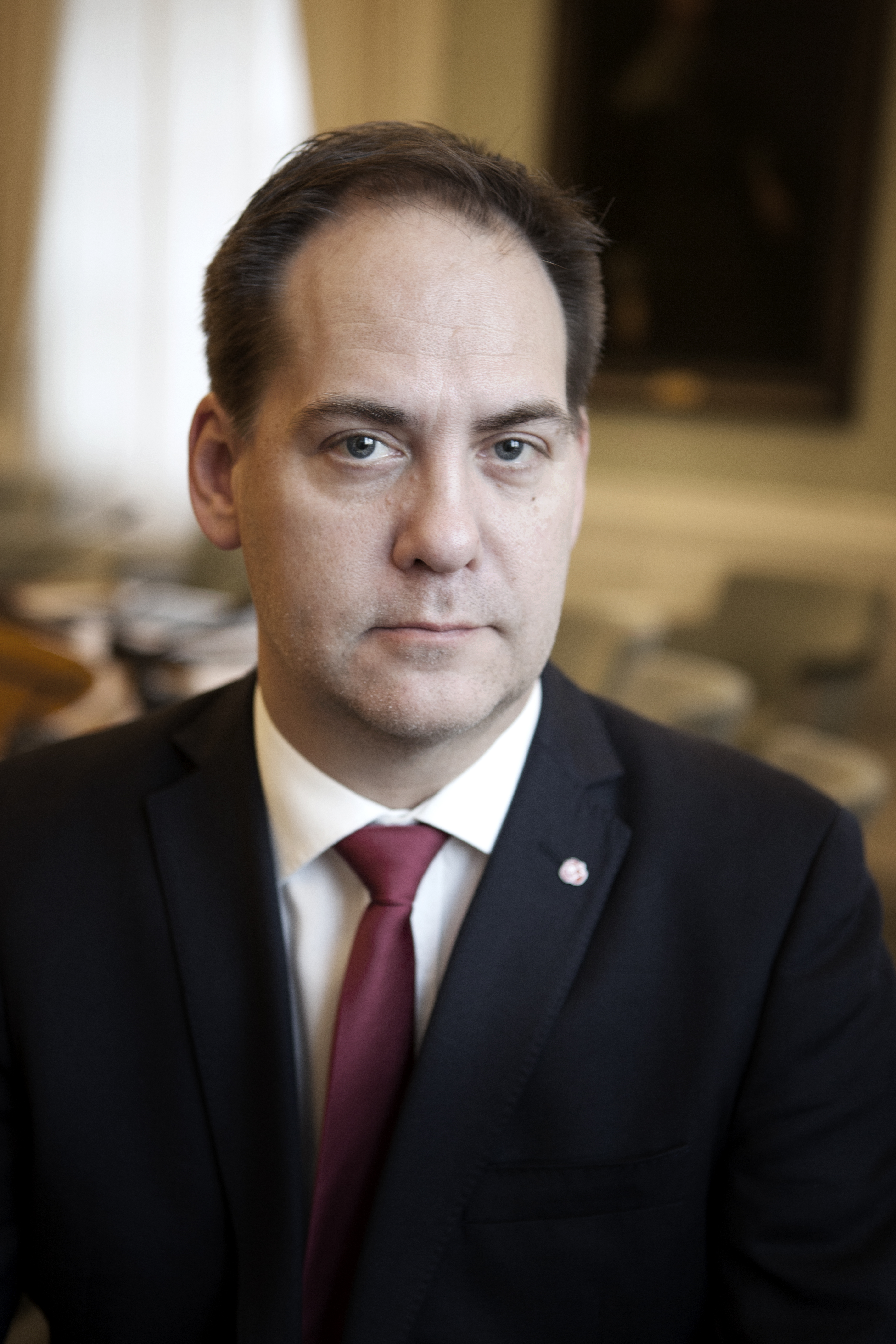 Kenneth G Forslund, Member of Parliament